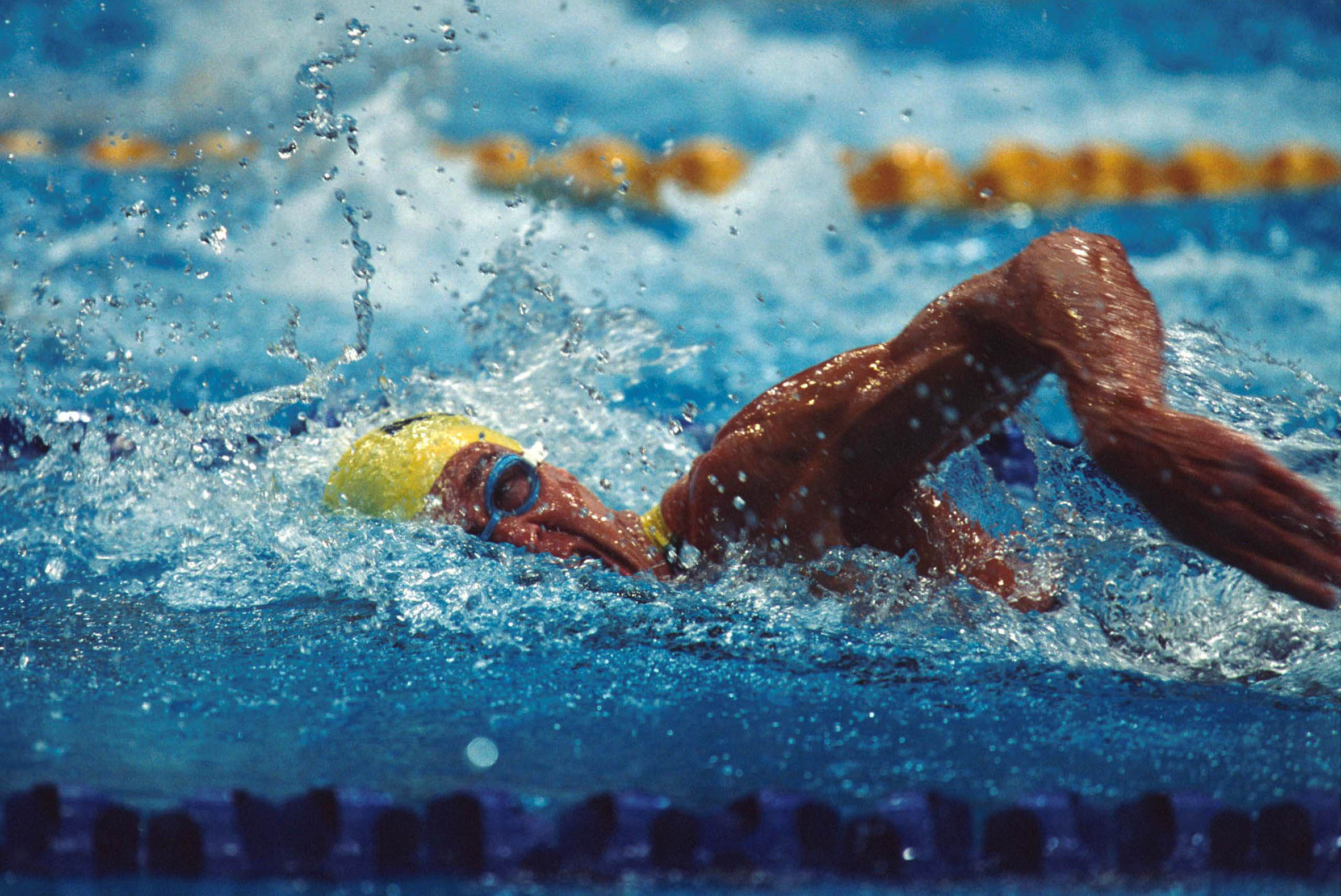 Action shot of Australian swimmer Jeff Hardy during competition at the 2000 Sydney Paralympic Games